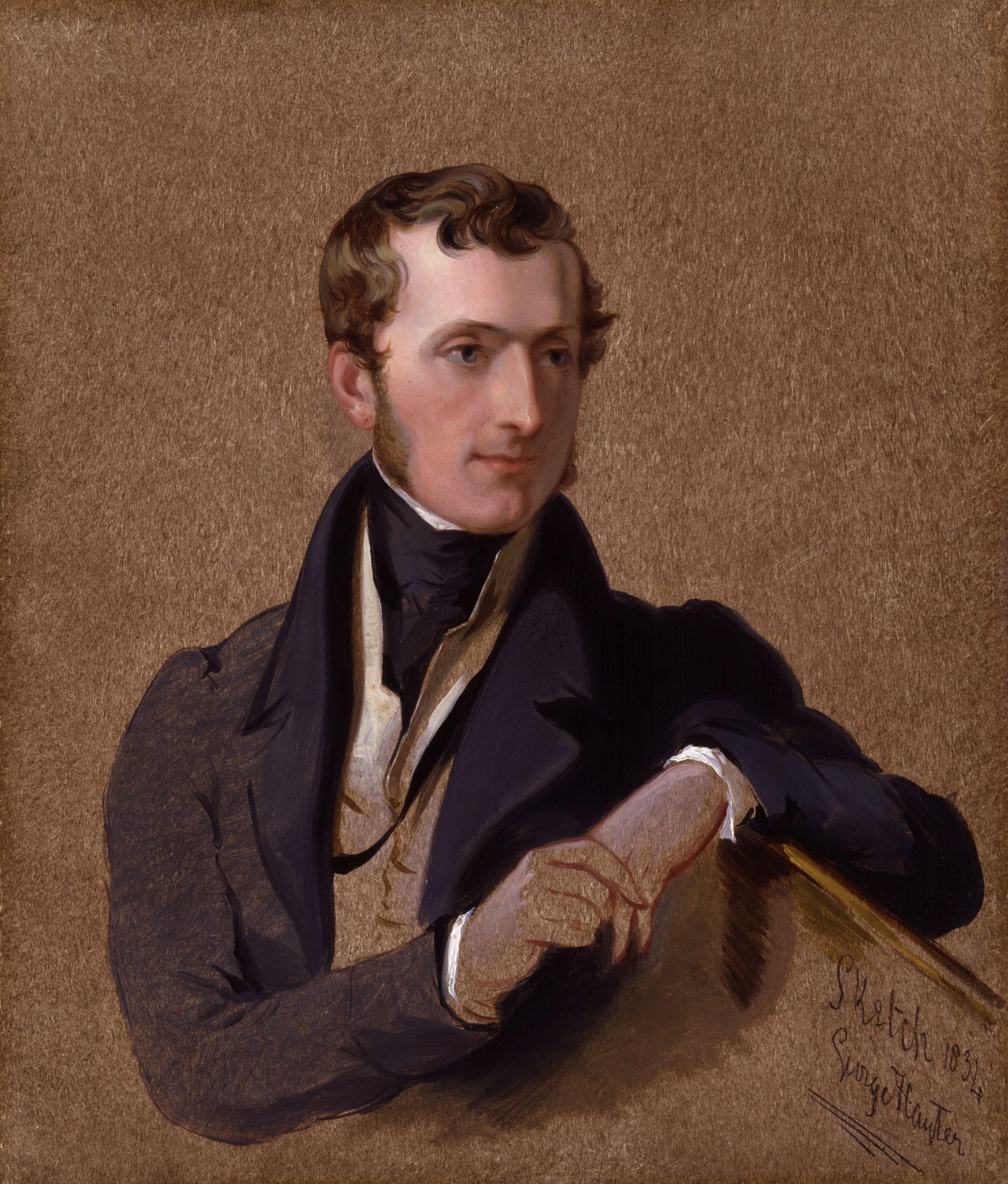 Philip Stanhope, 5th Earl Stanhope, by Sir George Hayter (died 1871), given to the National Portrait Gallery, London in 1963. All images in this batch have been confirmed as author died before 1939 according to the official death date listed by the NPG.